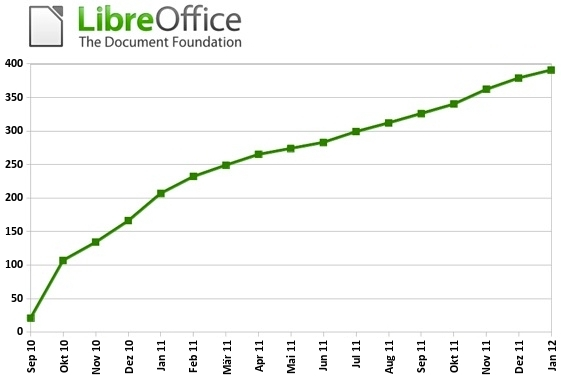 New code commiters of LibreOffice